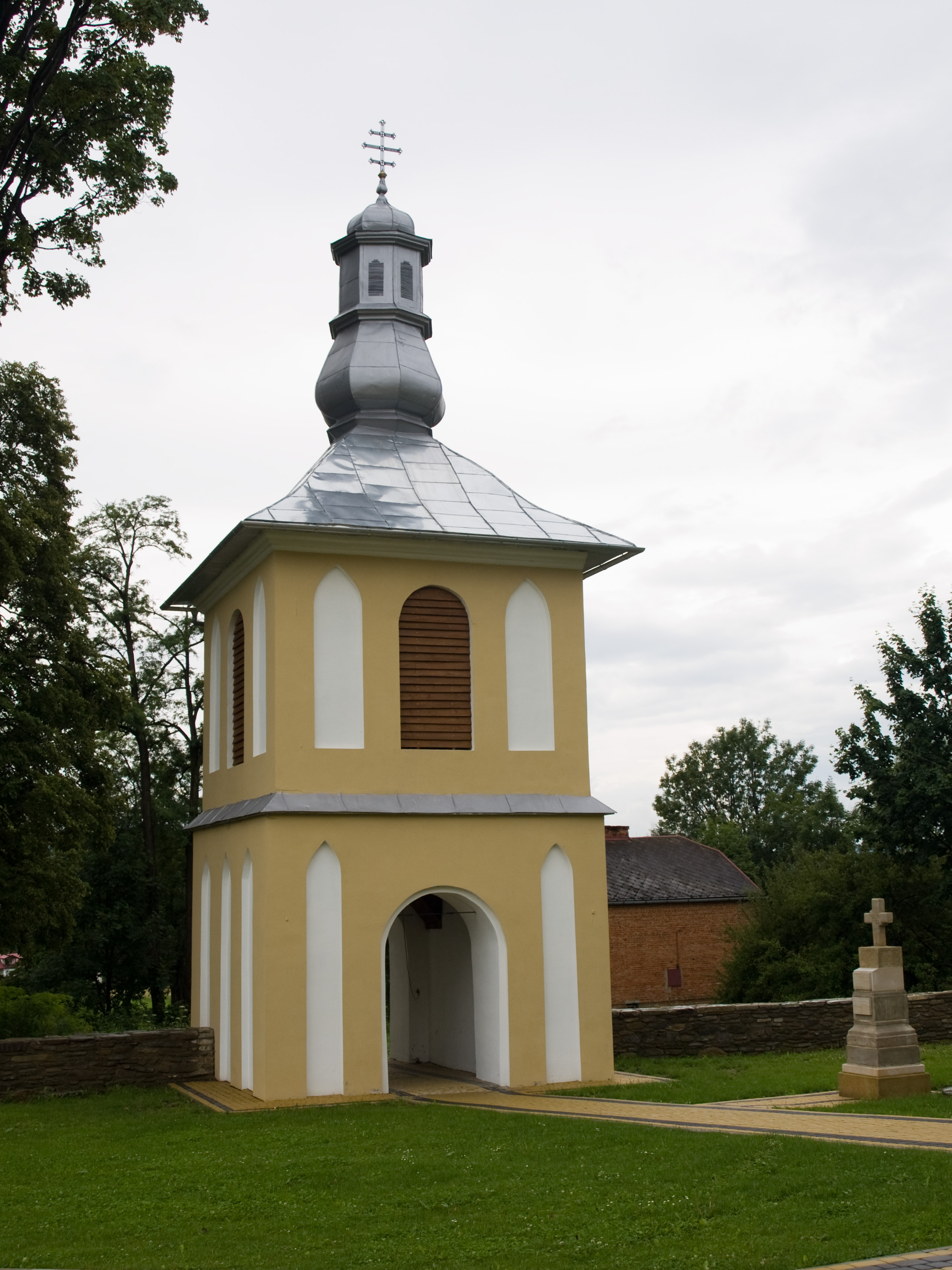 Bell tower, Odrzechowa, Subcarpathian Voivodeship